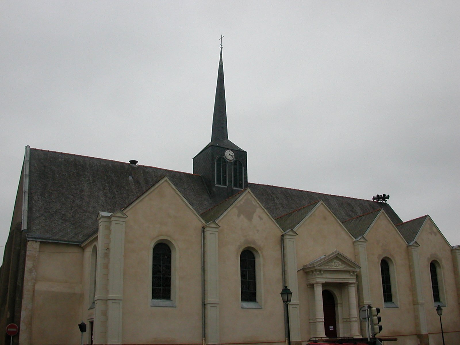 Church of Varades